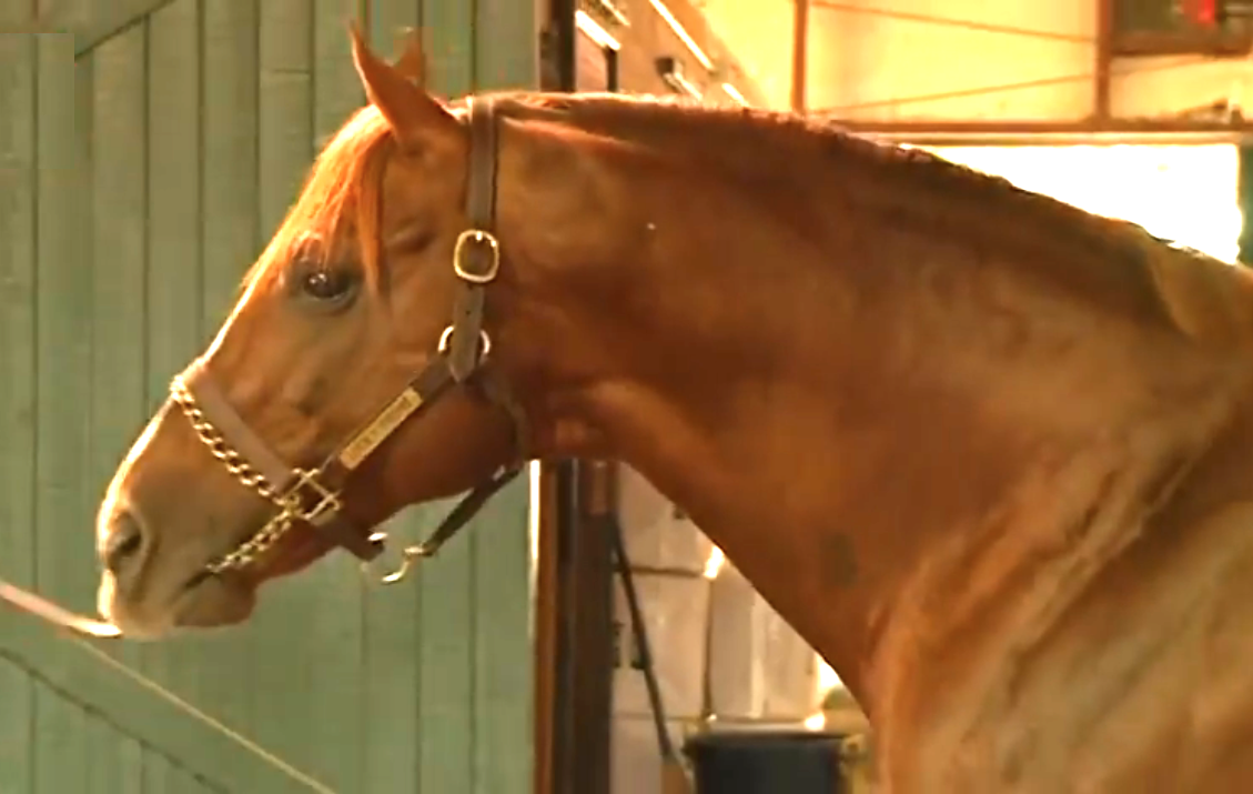 Lucky Pulpit, Thoroughbred racehorse and sire of 2014 Kentucky Derby winner California Chrome.